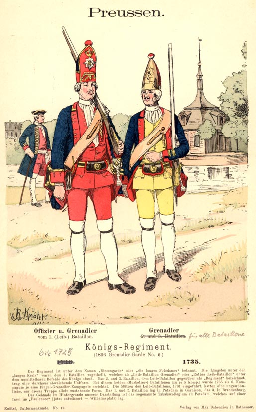 Preußen. Königs-Regiment 1725-1735